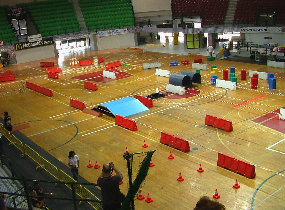 Rollercross